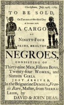 Reproduction of a handbill advertising a slave auction, in Charleston, South Carolina.